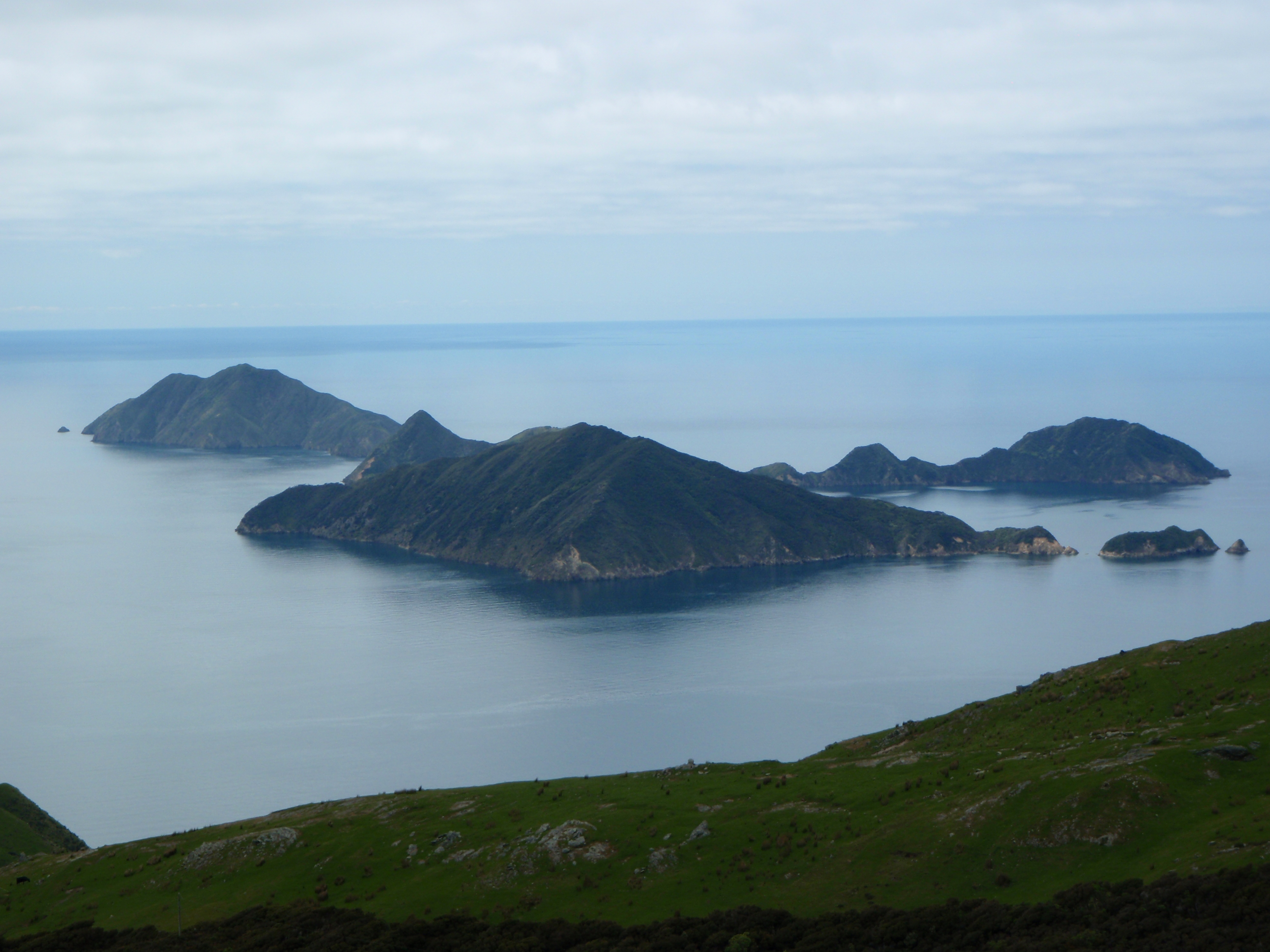 Wakaterepapanui Island (LHS) 225m high, Tinui Island (Foreground) 190m high & Puangiangi Island (RHS) 150m high make up the Rangitito Islands - viewed from Rangitoto ki te Tonga (D’Urville Island) & looking East. D'Urville Island in the foreground.